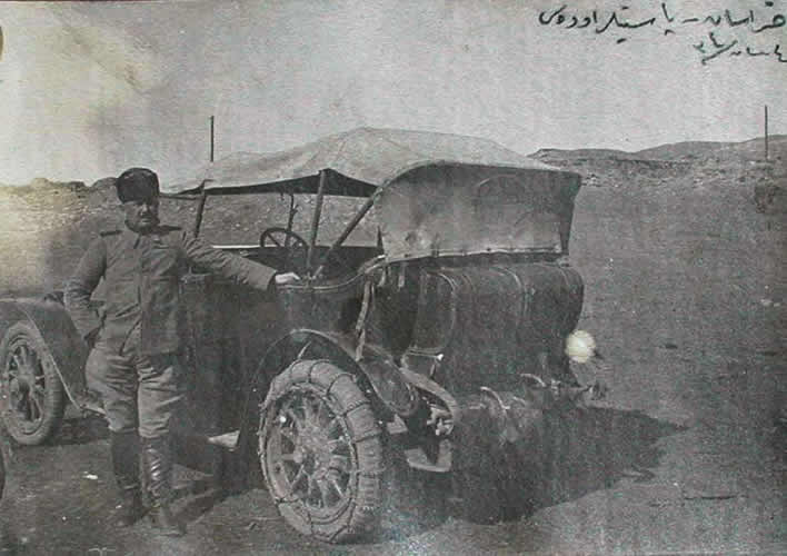 Kiazim Karabekir Pasha at Pasinler plain in 1918